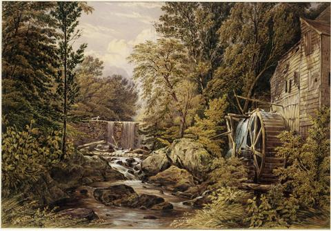 Title: Carl's Mill, Tarrytown, New York Medium: Watercolor, gouache, selective glazing, and graphite on paper, laid on card Dimensions: Overall: 14 1/4 x 20 in. ( 36.2 x 50.8 cm ) mat: 22 x 28 in. ( 55.9 x 71.1 cm ) Credit line: Purchase, James B. Wilbur Fund Marks: signature and date: lower right: "W. R. Miller/ 1851" inscription: lower left: "Carl's Mill, Sleepy Hollow/W. R. Miller, N.Y." Inscriptions: Signed and inscribed at the lower right in red watercolor: "W.R. Miller. / .1851."; inscribed at lower left in black ink: "Carl's Mill Sleepy Hollow / W.R. Miller. NY." Gallery label: This little mill on the Pocantico River was one of the ancient landmarks of the Sleepy Hollow country of Westchester County immortalized by Washington Irving (1783-1859). A re-rendering by Miller of this picture (oil on academy board, 9 1/2 x 7 1/2 inches), signed and dated 1883, was in the collection of the Old Print Shop, New York City, in 1958. The Society also has in its collection a watercolor of the dam at Carl's Mill taken by William Henry Wallace (q.v.) in 1893 after the mill vanished.